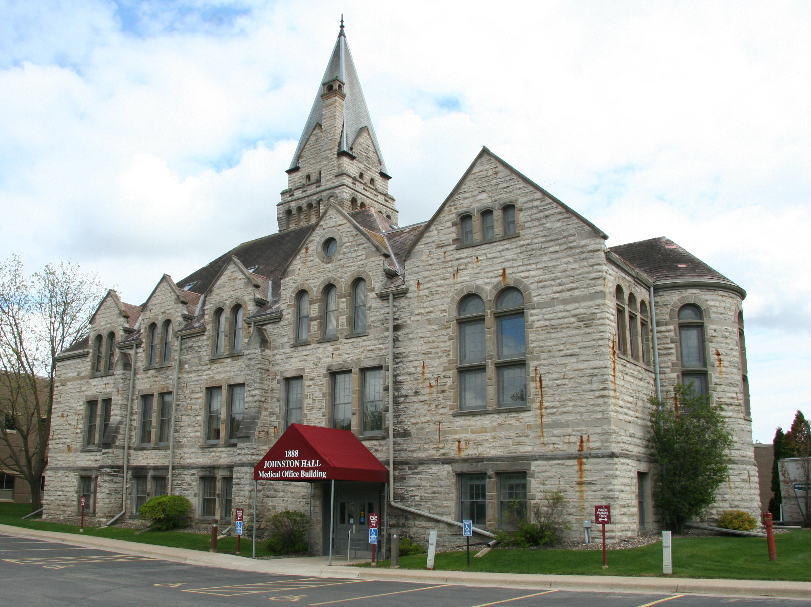 Historic Johnston Hall Medical Office Building, Faribault, Minnesota